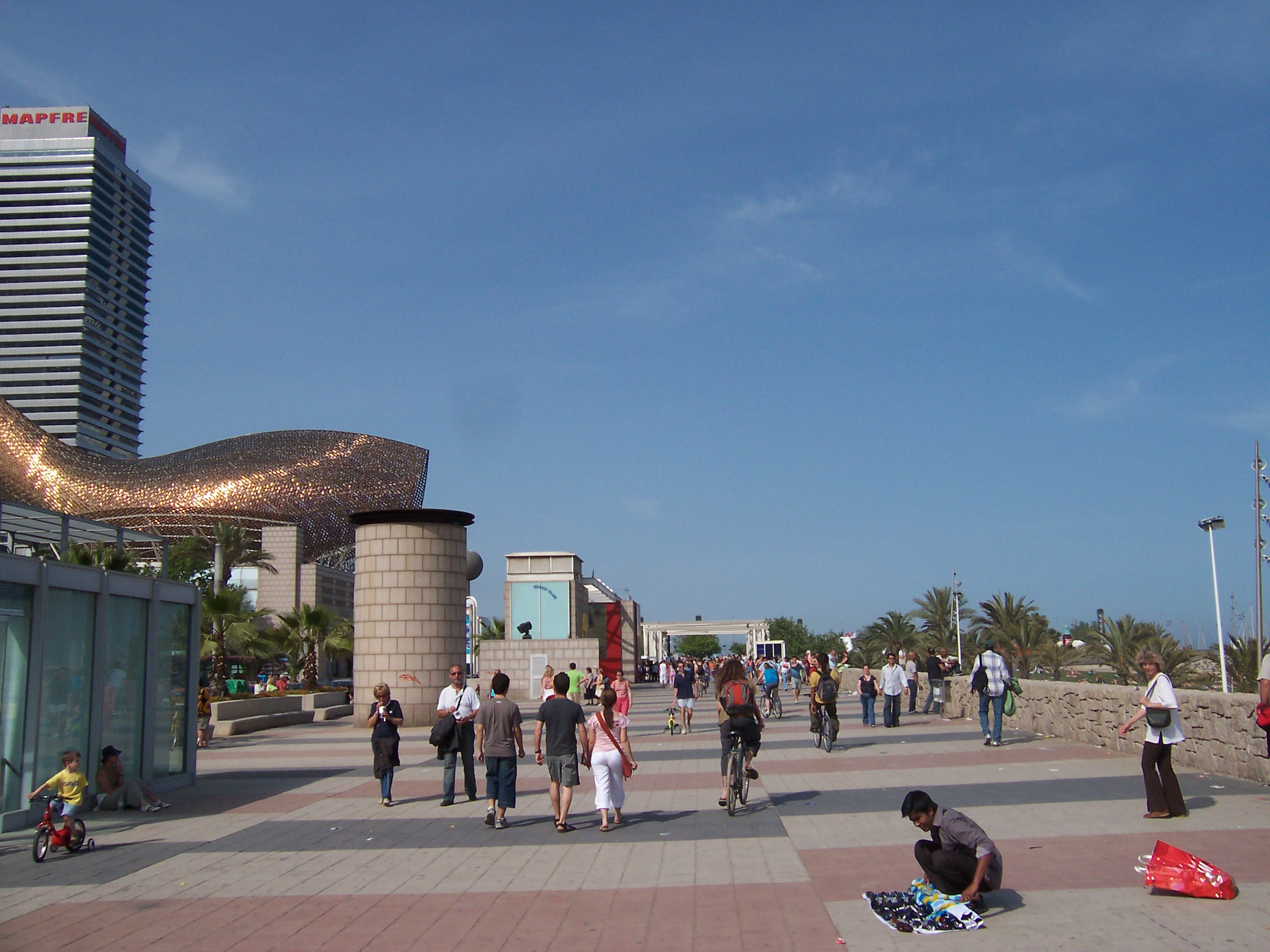 Barceloneta Beach boardwalk, in Barcelona.